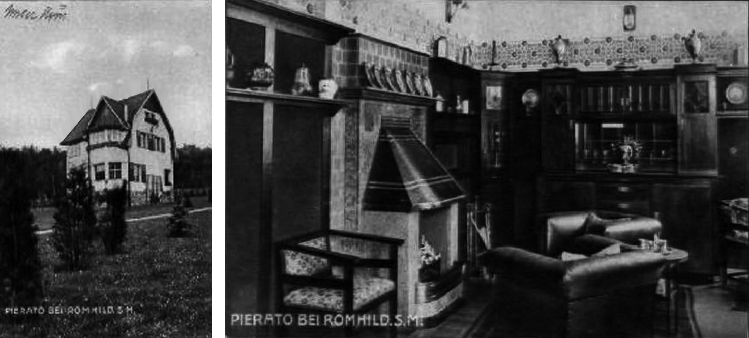 The Villa Pierato of Pierre and Erato Mavrogordatos in Römhild